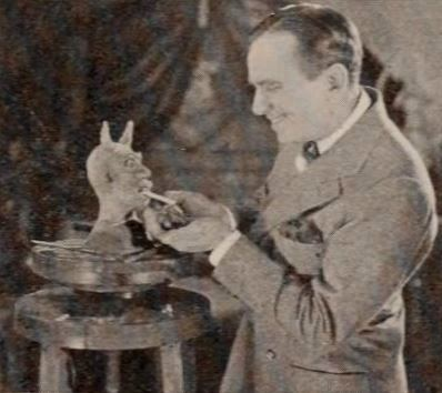 Still from the American comedy film When the Clouds Roll By (1919) with Douglas Fairbanks, on page 61 of the January 10, 1920 Exhibitors Herald.